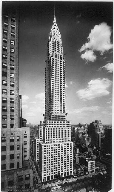 Chrysler Building, New York City.